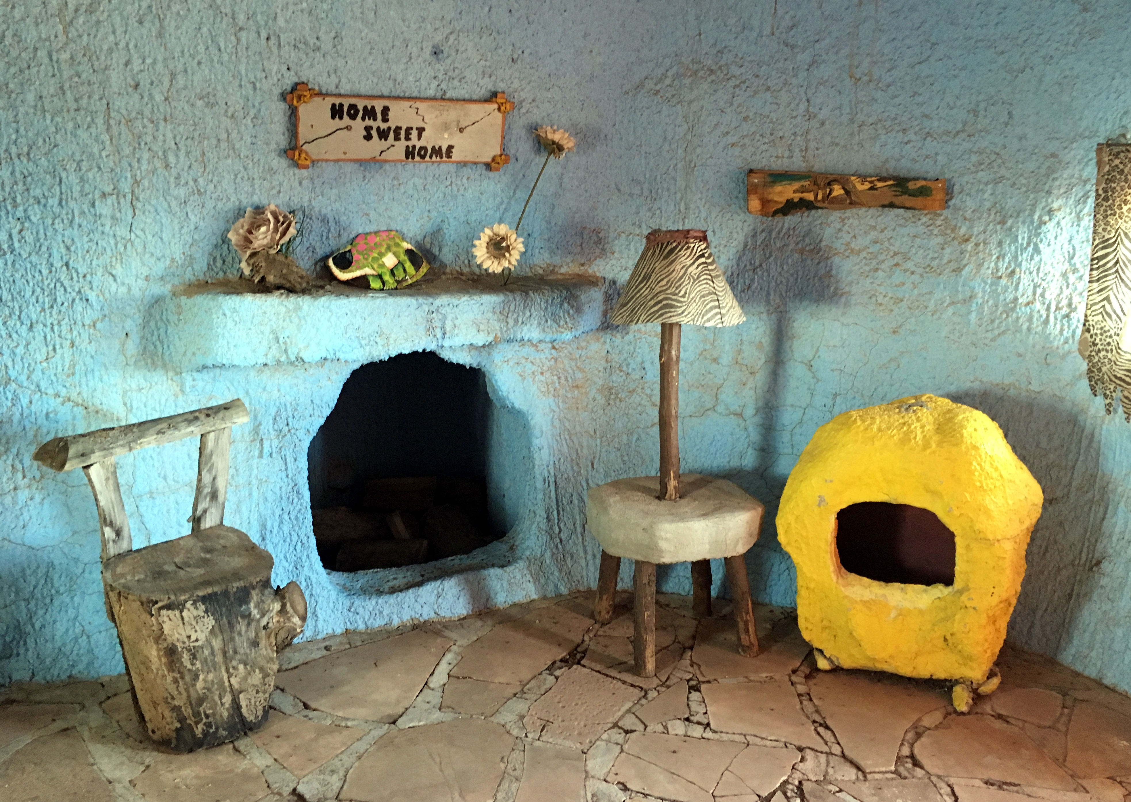 Williams - Bedrock City - Barney's House - Inside